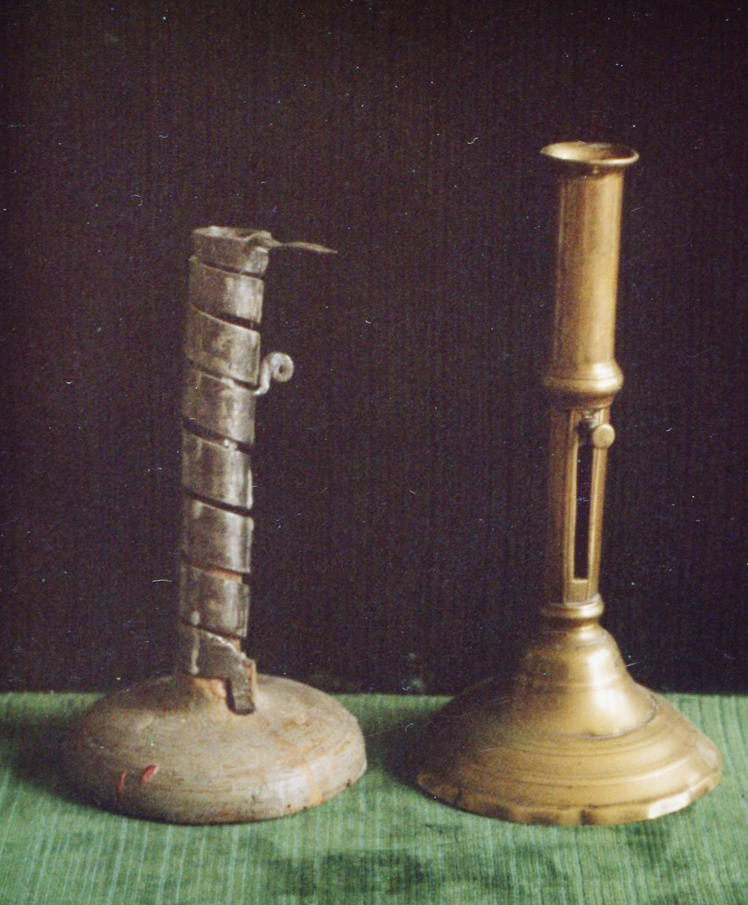 Adjustable candlestick, hogscraper.